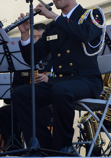 Clarinet player in Japan Maritime Self-Defense Force Band, Ōminato.